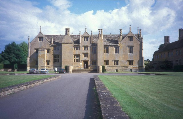 Barrington Court, Somerset